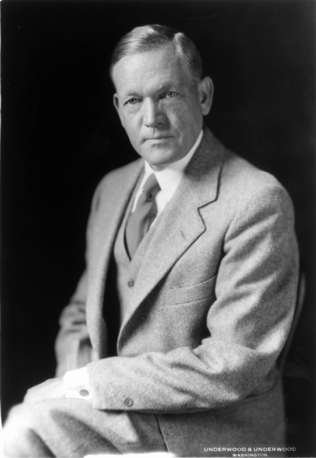 Charles L. McNary, U.S. Senator from Oregon